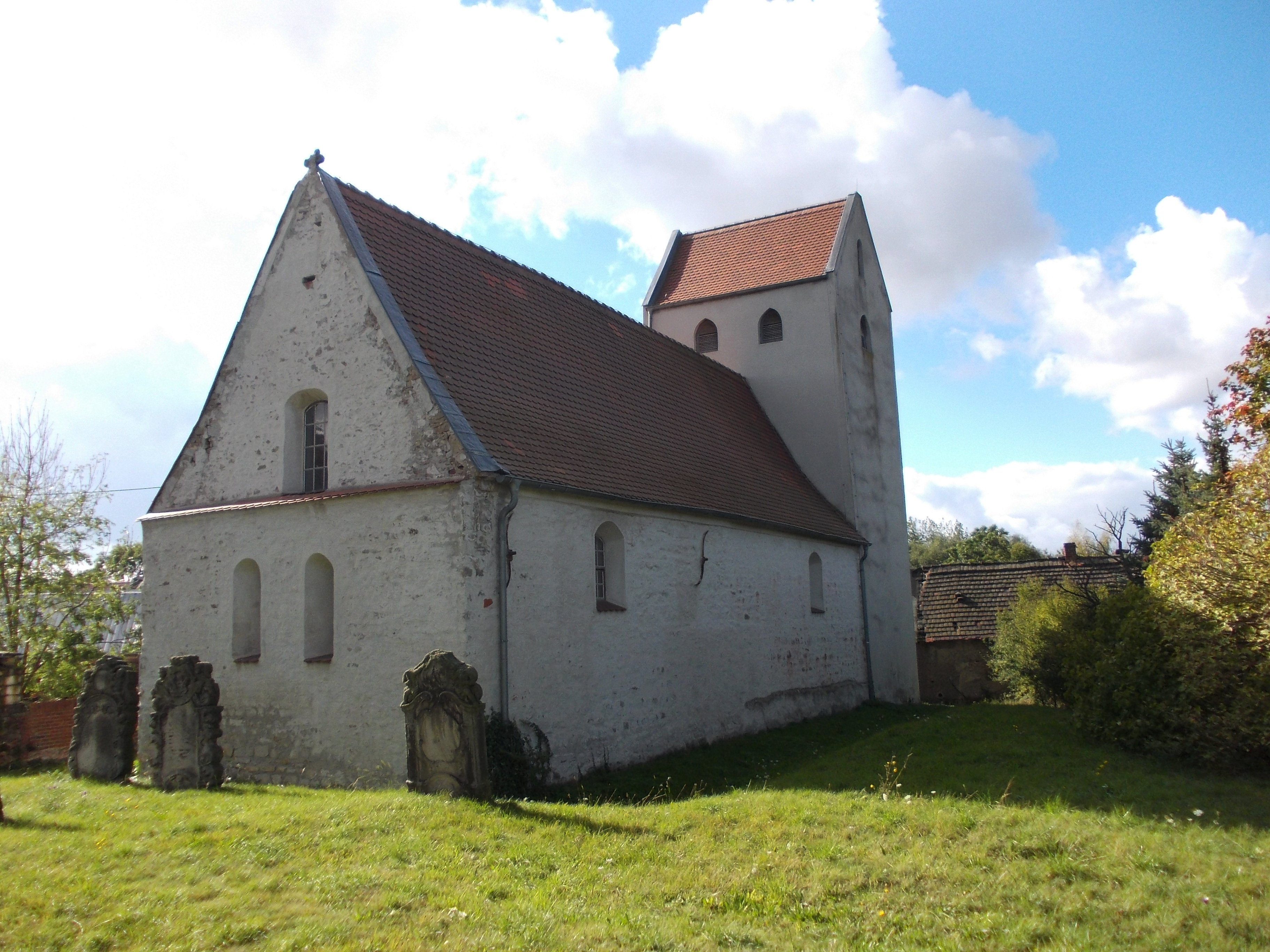 Kirchedlau church (Könnern, district of Salzlandkreis, Saxony-Anhalt) with old gravestones